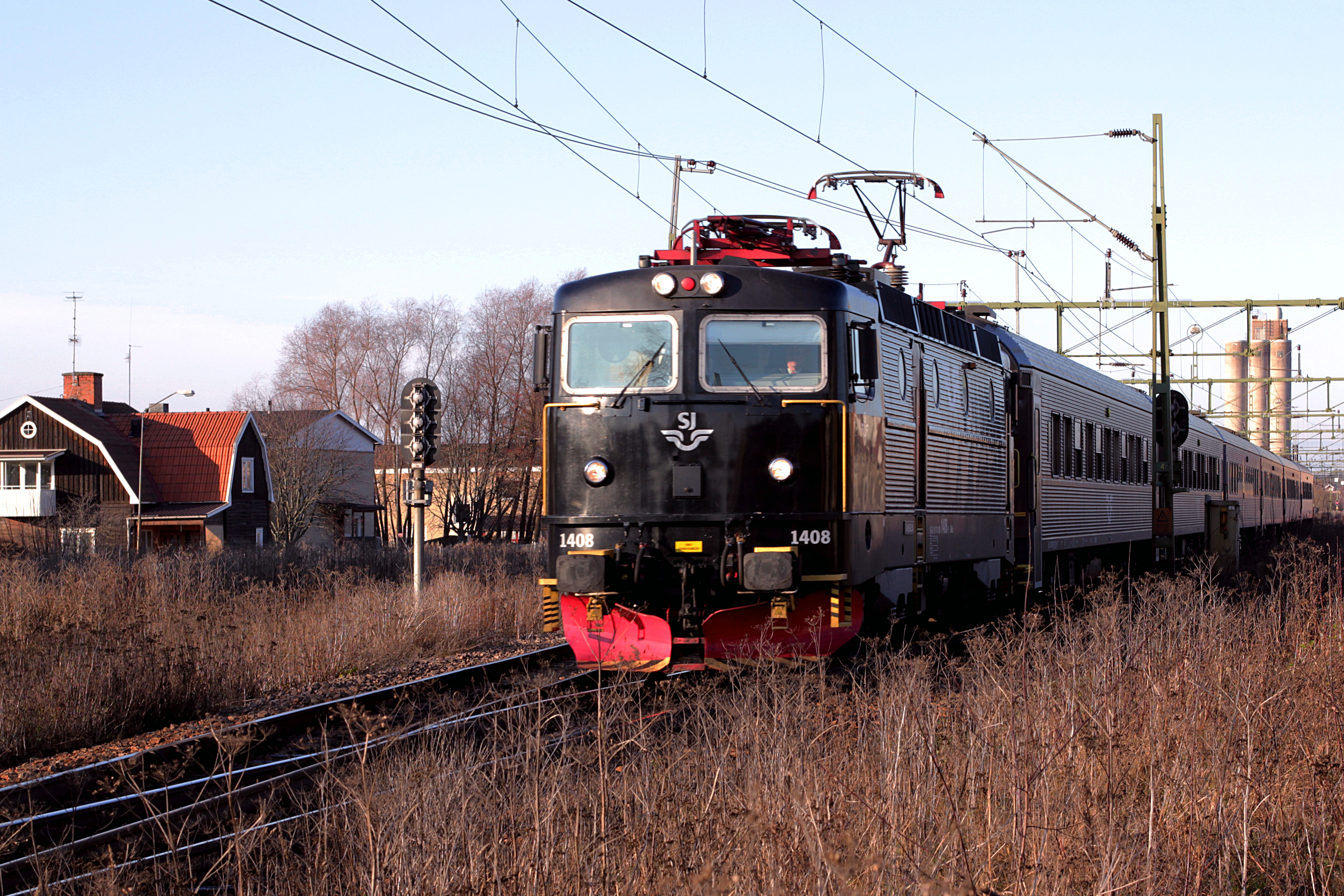 A train from SJ AB at Dala Line in Hedemora, Sweden.